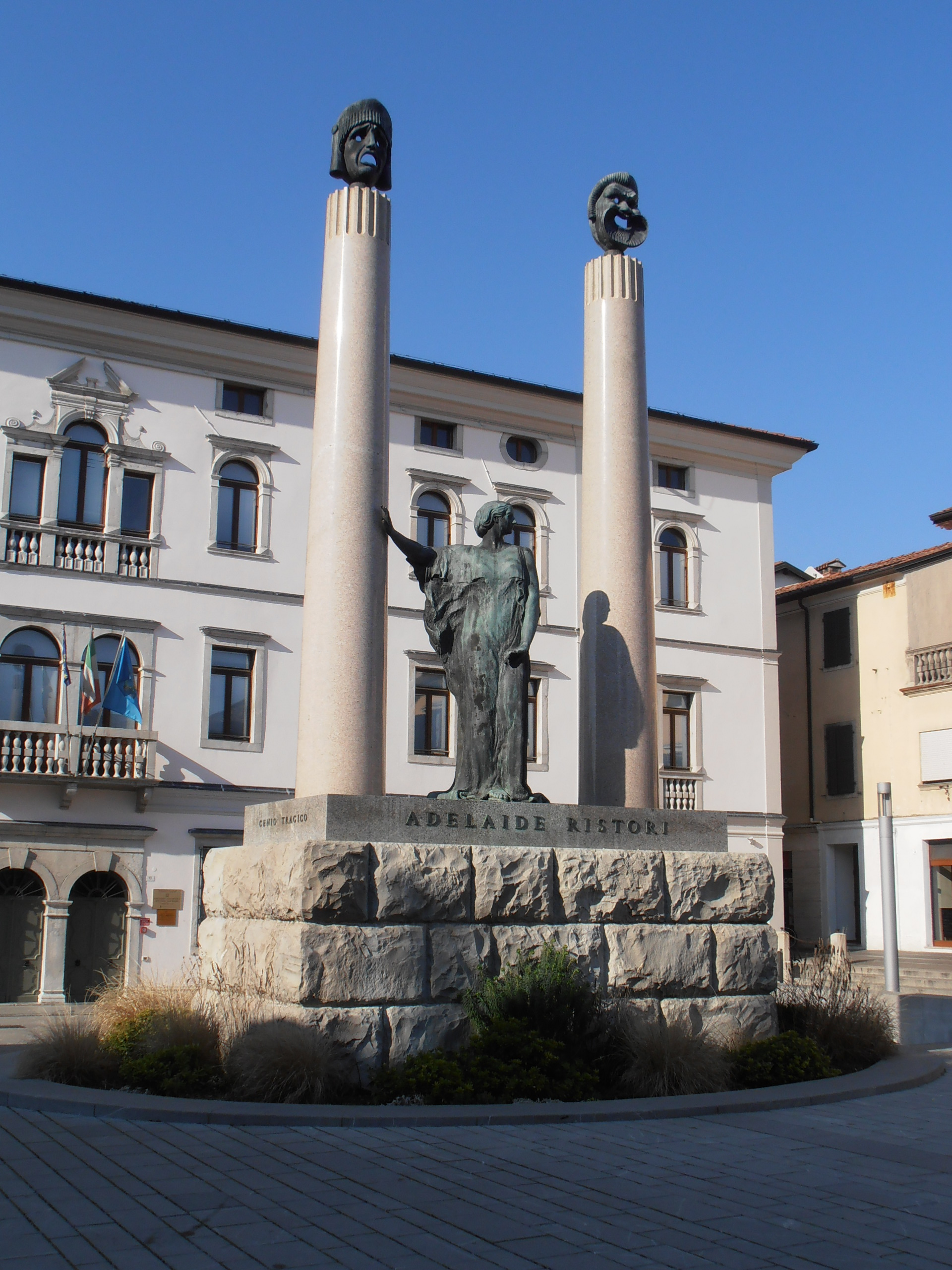 Adelaide Ristori monument in Cividale del Friuli